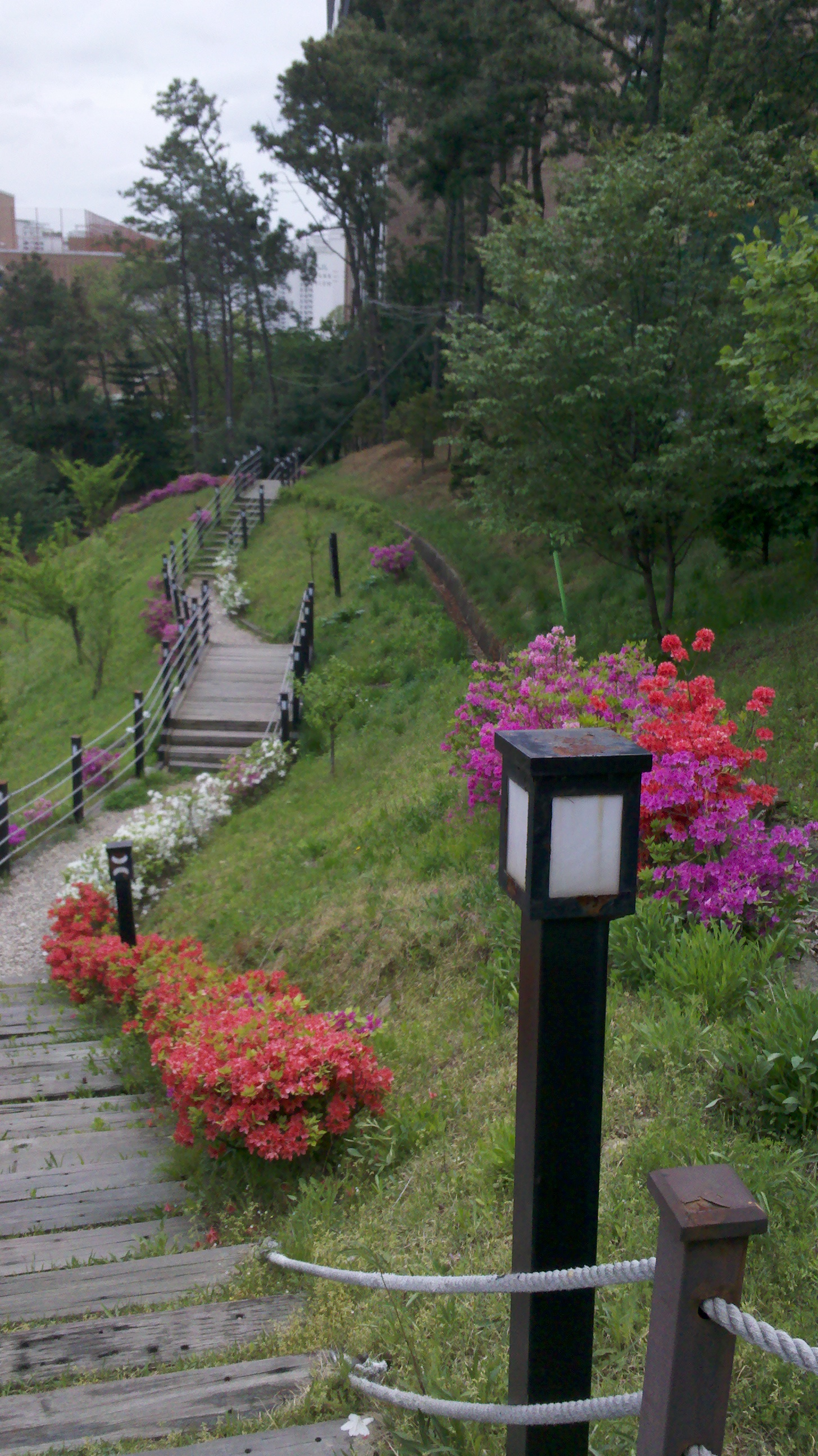 The park of the Seongnam Foreign Language Highschool